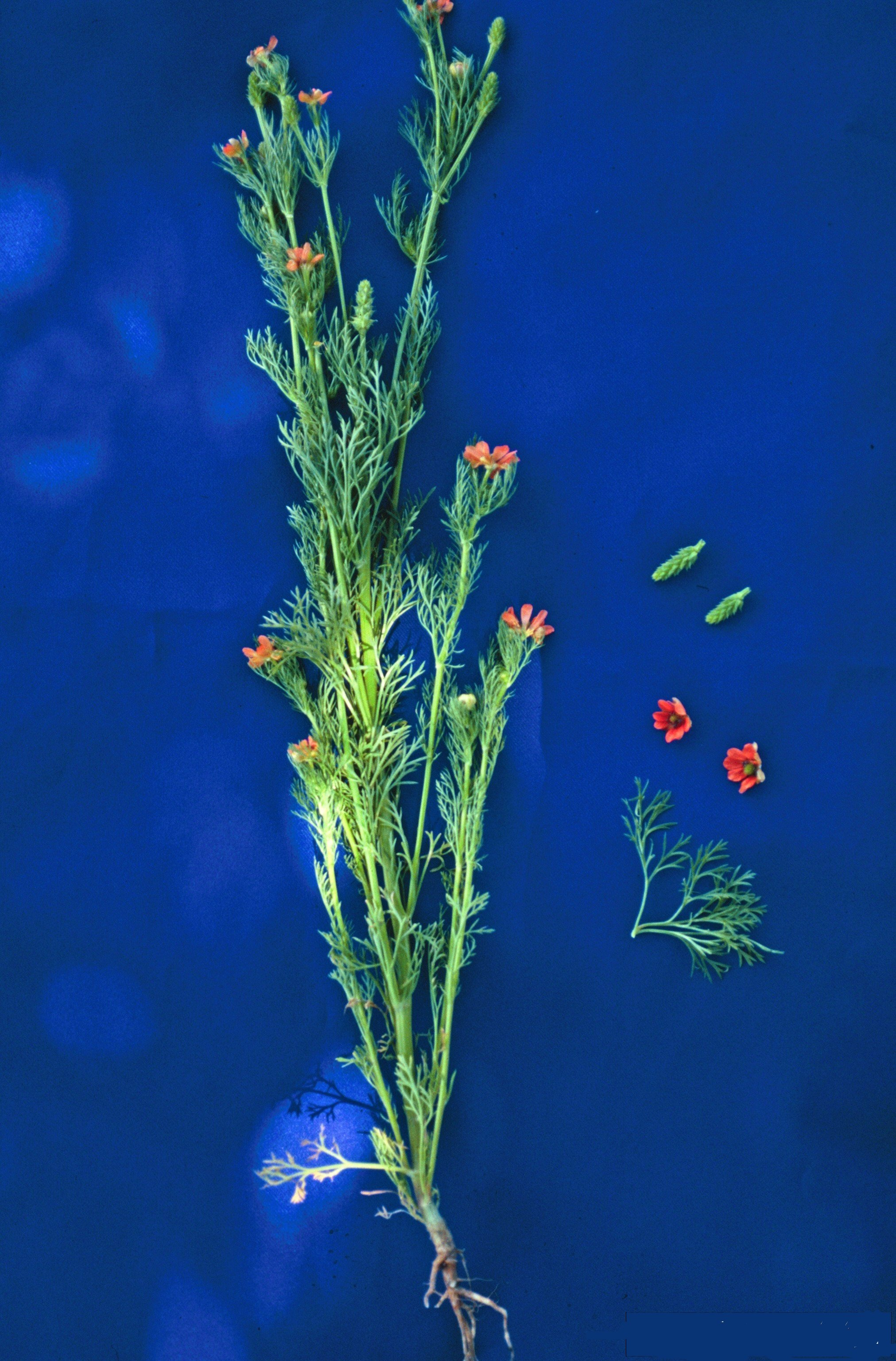 Summer pheasant's eye (Adonis aestivalis)